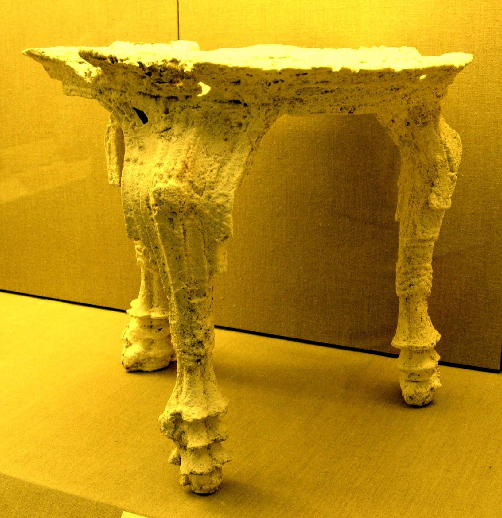 plaster copy of Akrotiri table, archeological museum of Fira, Santorini